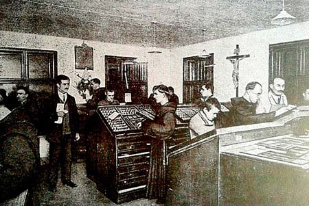 Composing room of the Bonaventura Press (1906-1948) in Kolozsvár